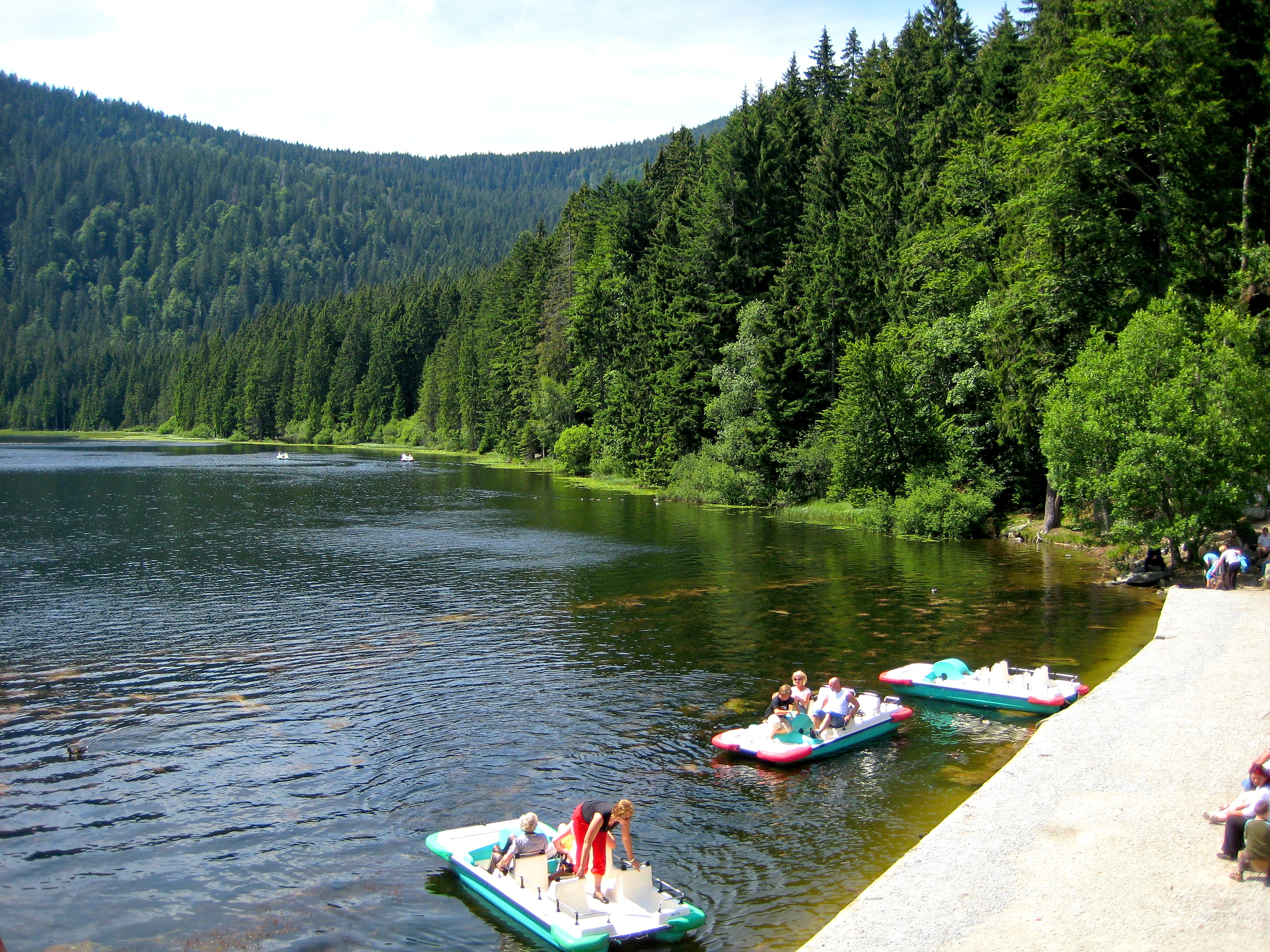 Großer Arbersee, Bavarian Forest